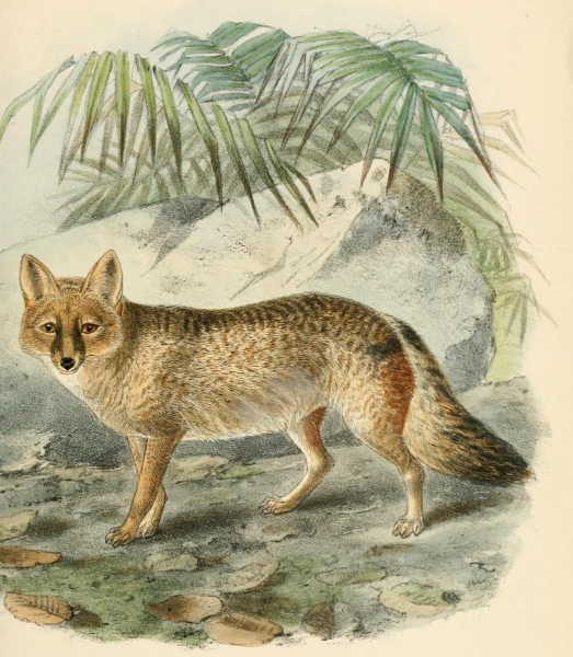 Engraving of a pampas fox by J. G. Keulemans